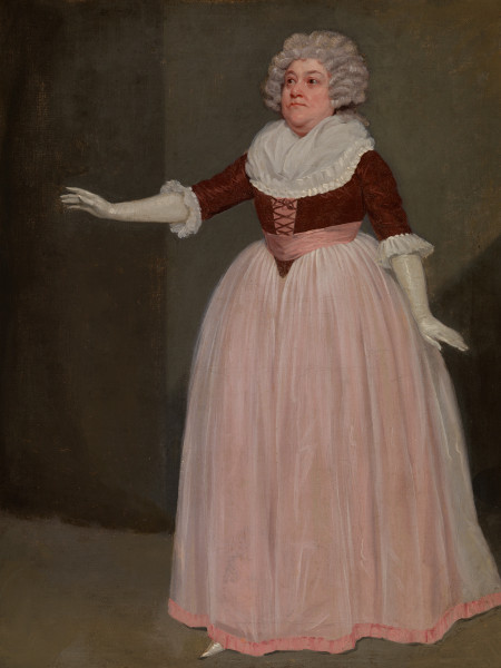 Mrs Webb by Samuel de Wilde said to be "Mrs Richard Webb"